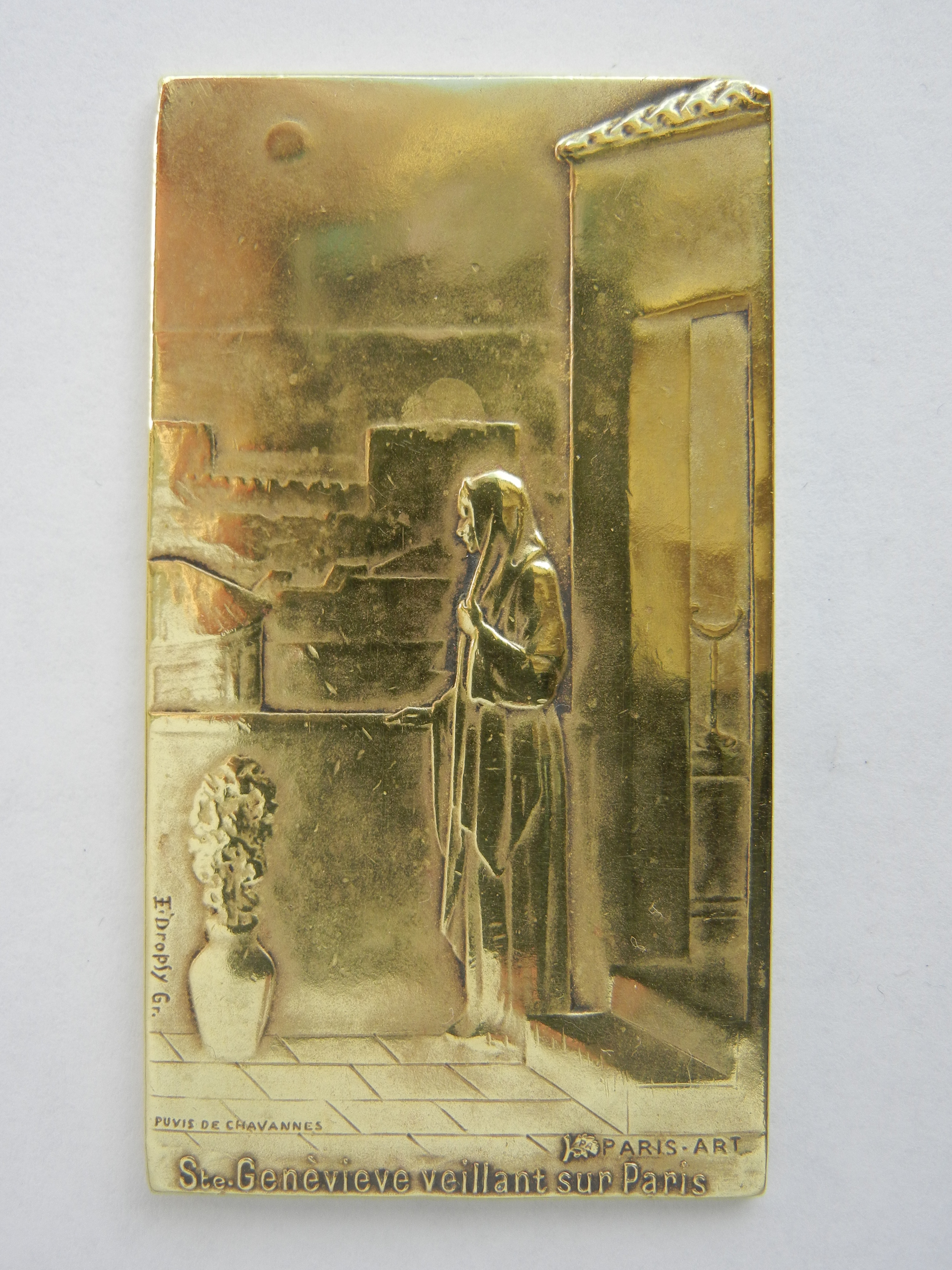 Copper medal "St. Genevieve watching over Paris" by Henry Dropsy (1885-1969) after Pierre Puvis de Chavannes (1824-1898). Edited by Paris Art. Circa 1900. Format 65 x 35 mm, weight 45.6 grams